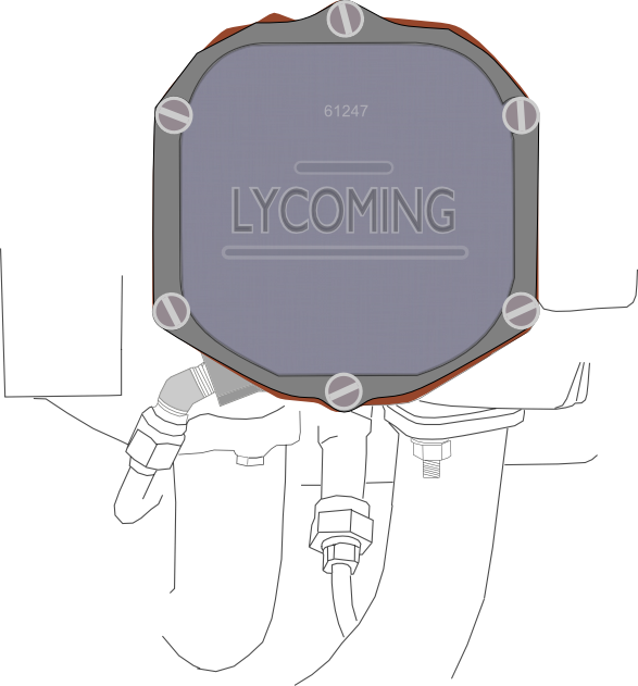 A drawing of a Lycoming 0-320-E2A Aircraft Engine Cylinder showing the valve cover and silicon valve cover gasket.